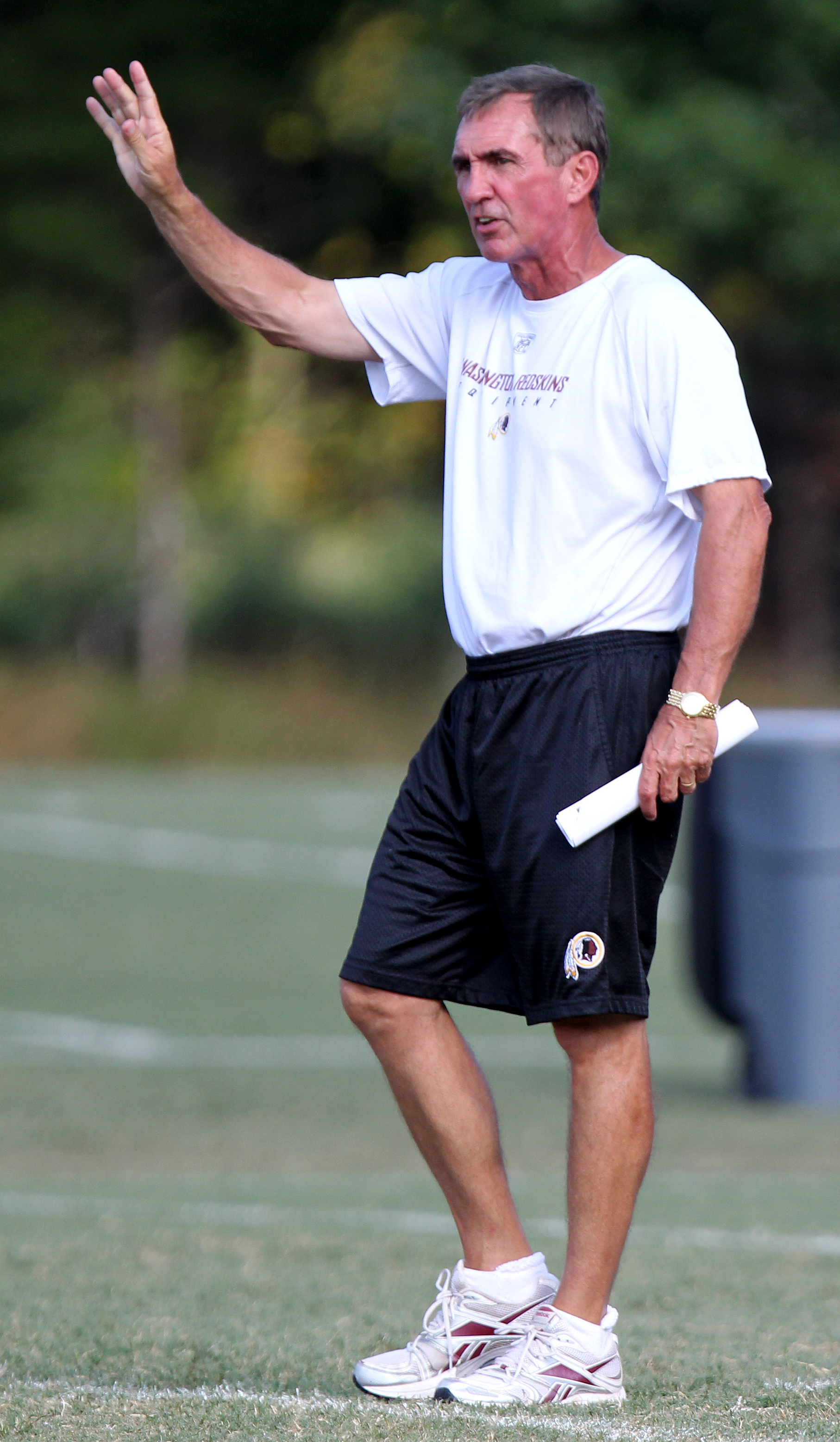 Head Coach Mike Shanahan at Washington Redskins Training Camp August 4, 2011